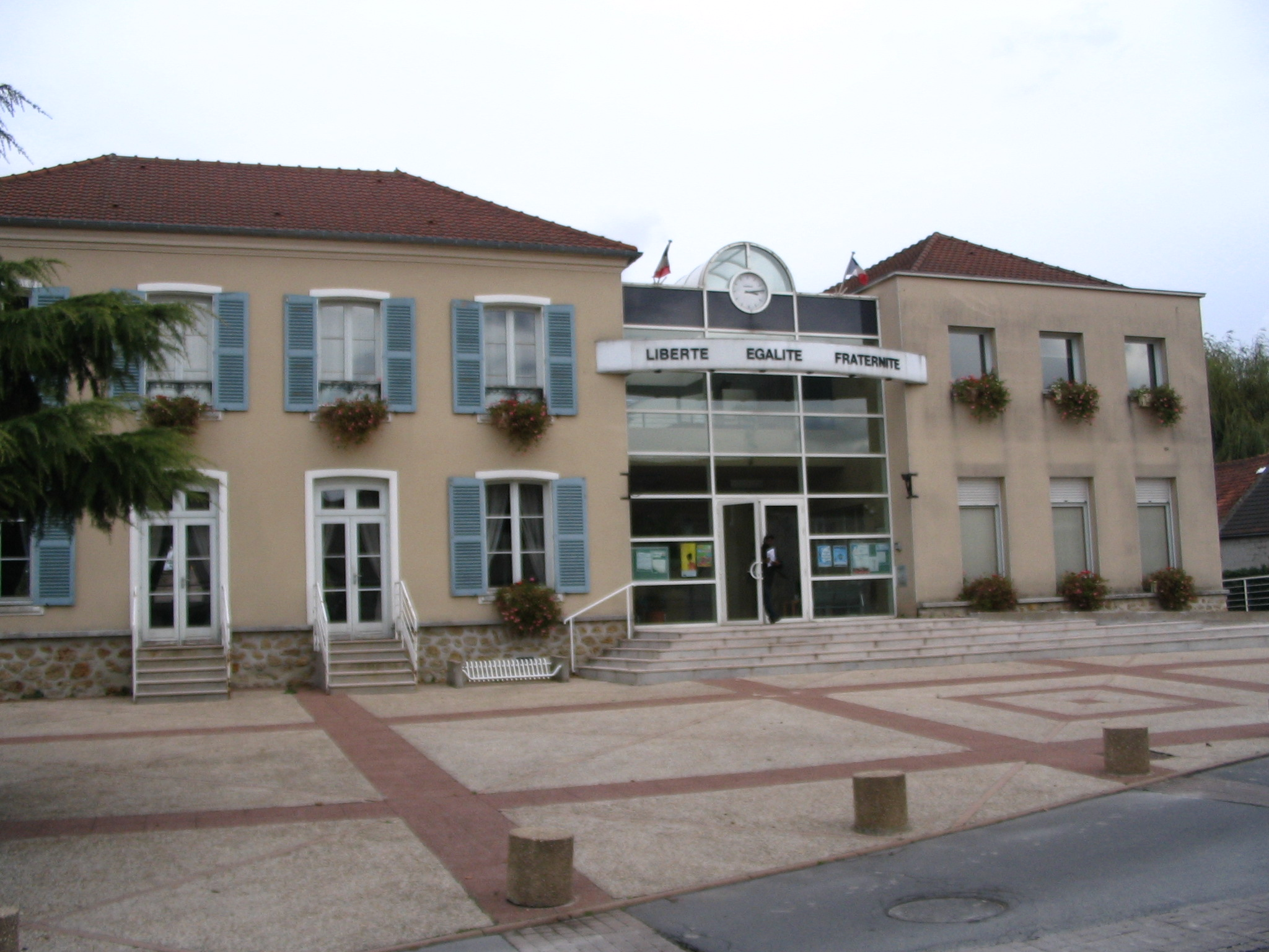 The town hall of Serris, Seine-et-Marne, France.